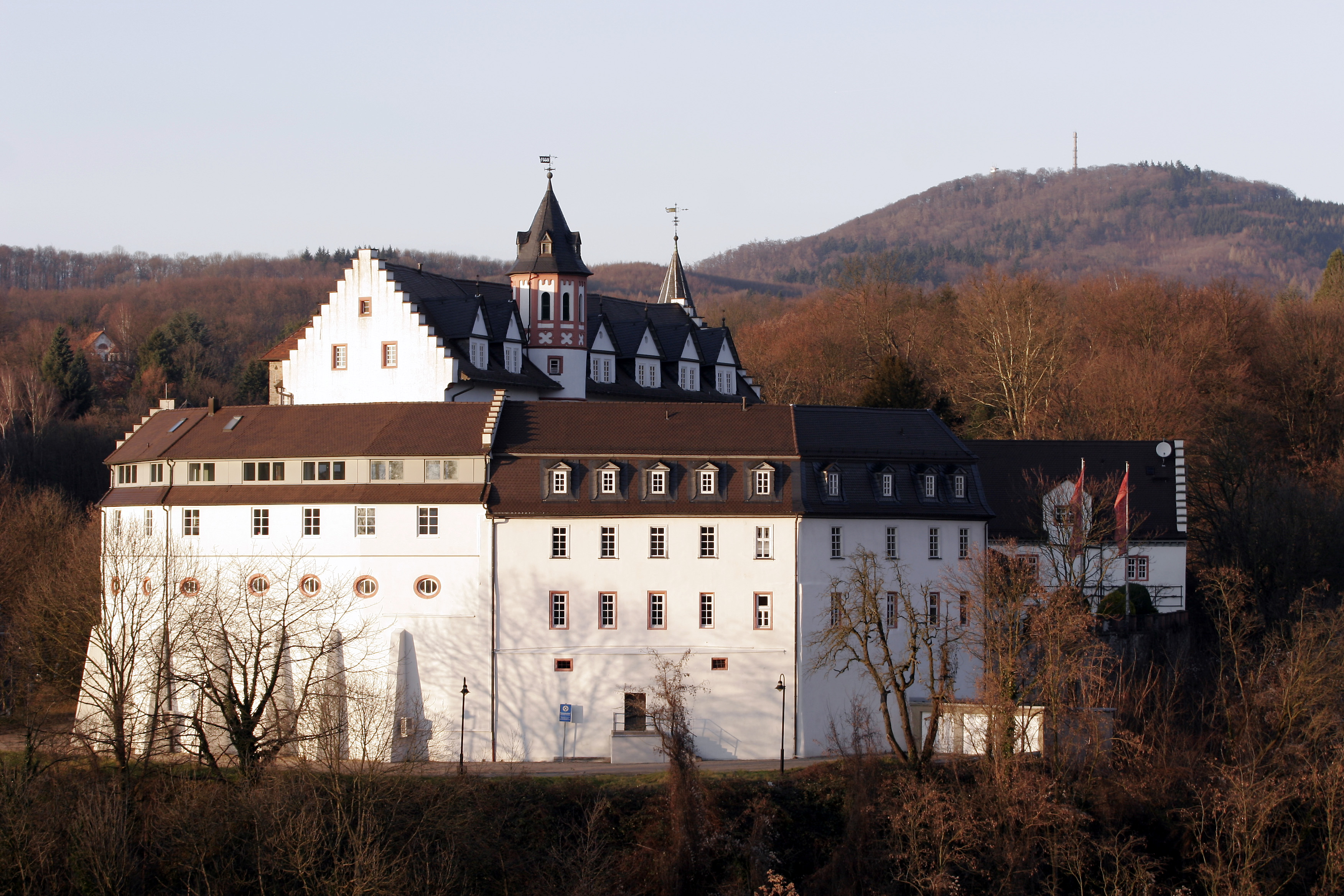 Schönberg Castle (Bensheim, Hesse, Germany)